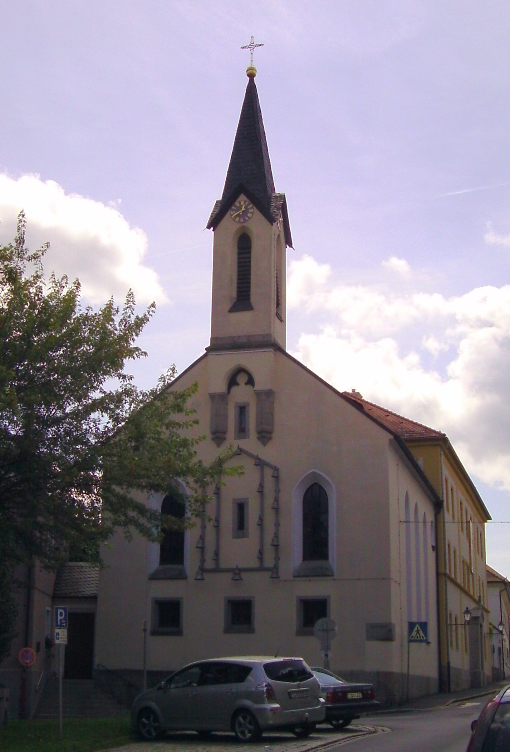 Church in Tirschenreuth